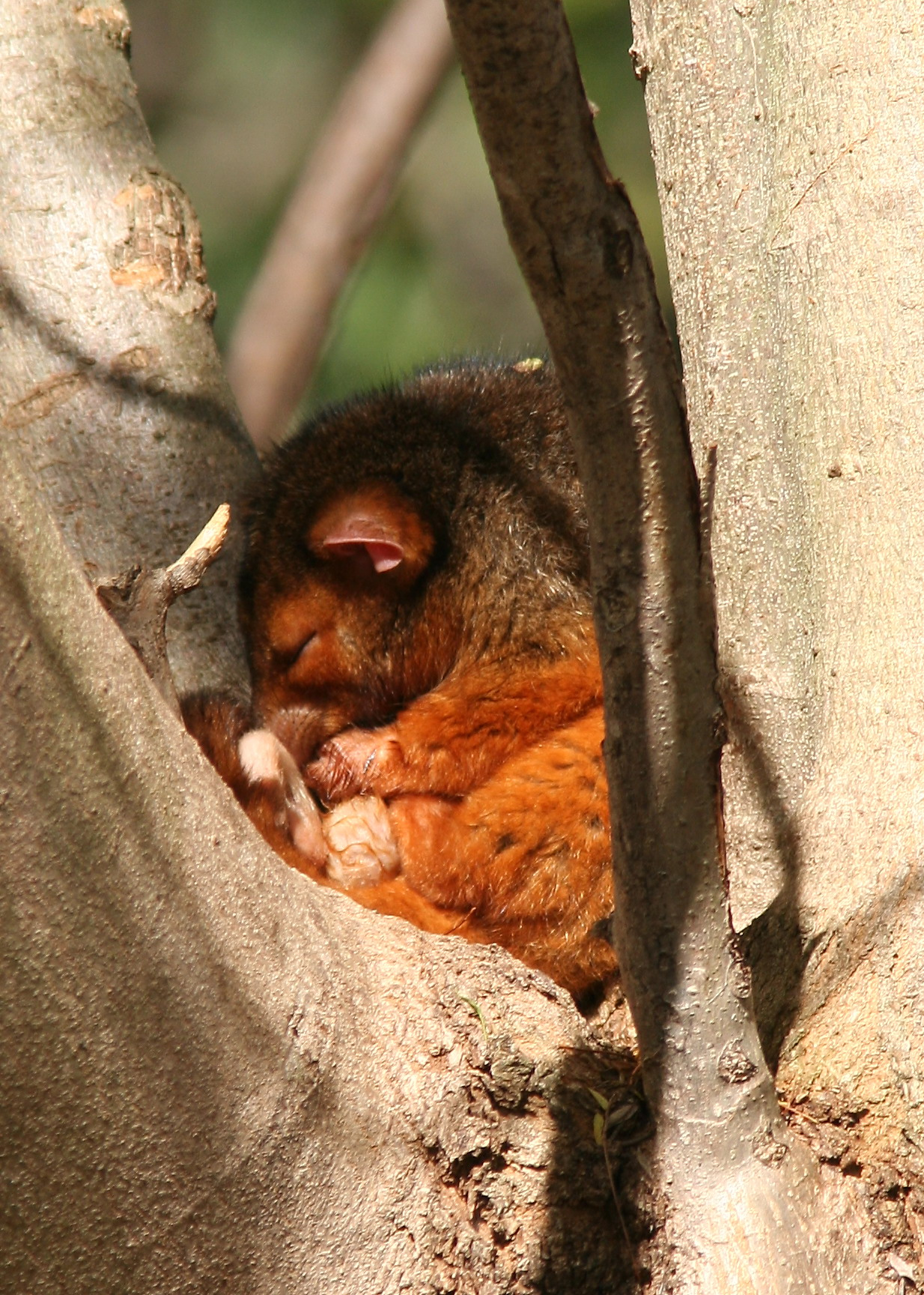 Common Ringtail Possum, Pseudocheirus peregrinus, daytime roost in suburban Jacaranda tree.